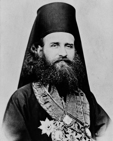 Portrait of Metropolitan of Belgrade Mihailo Jovanović, circa 1865